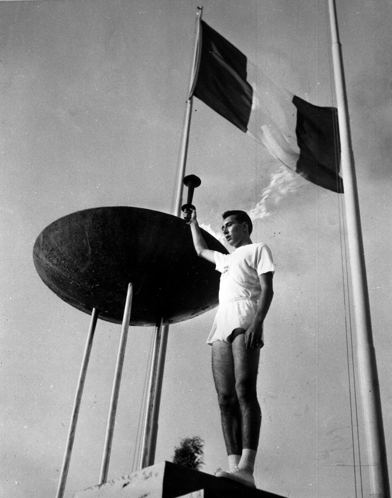 Giancarlo Peris lighting the 1960 Olympic flame